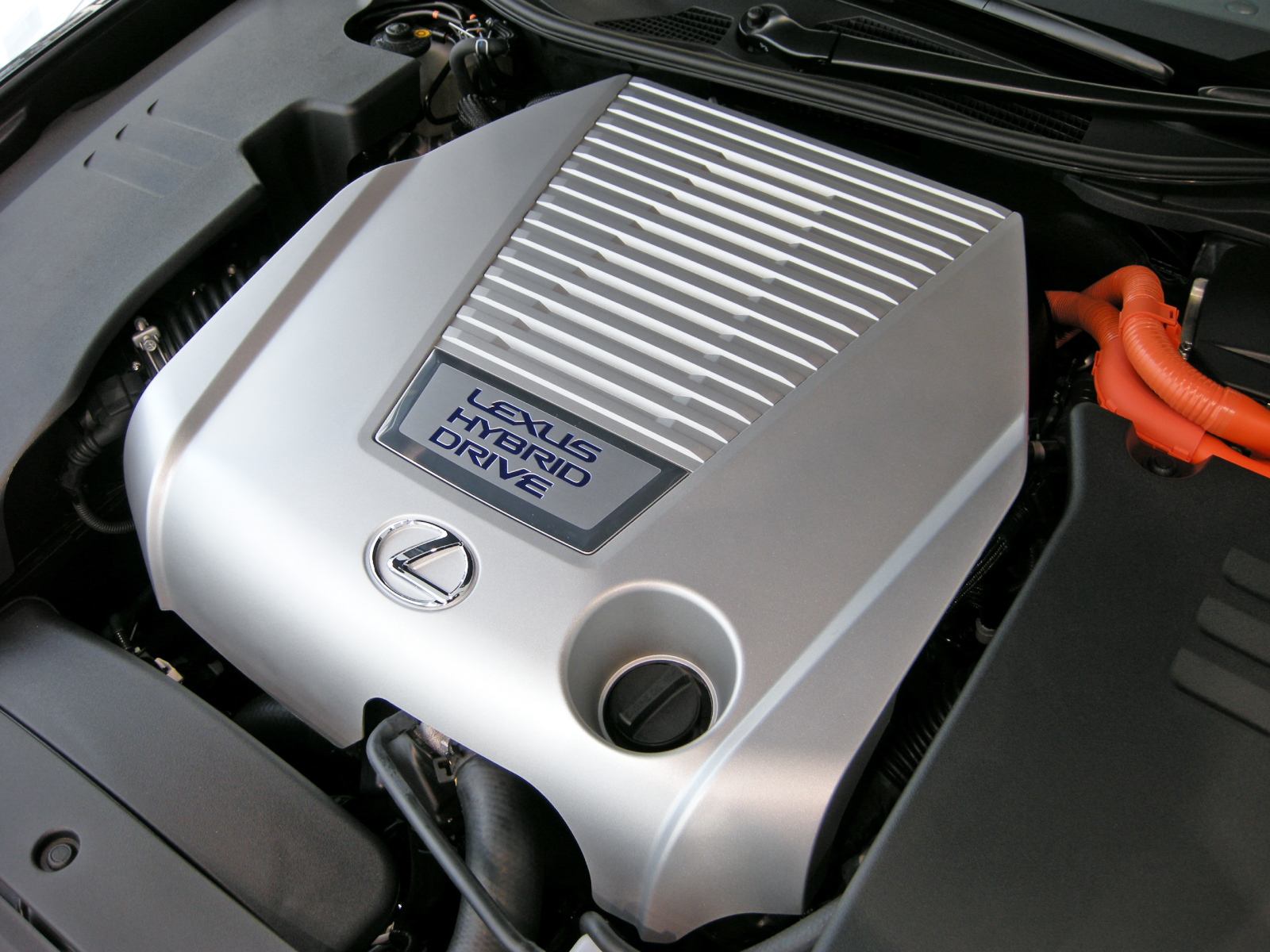 Lexus Hybrid Drive Unit ( 2GR-FSE 3.5L V6 + Electric-Drive Motor ) installed in Lexus GS450h